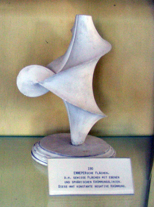 Model in the collection of mathematical models and instruments, Georg-August-Universität Göttingen Göttingen. see also for more information on the models